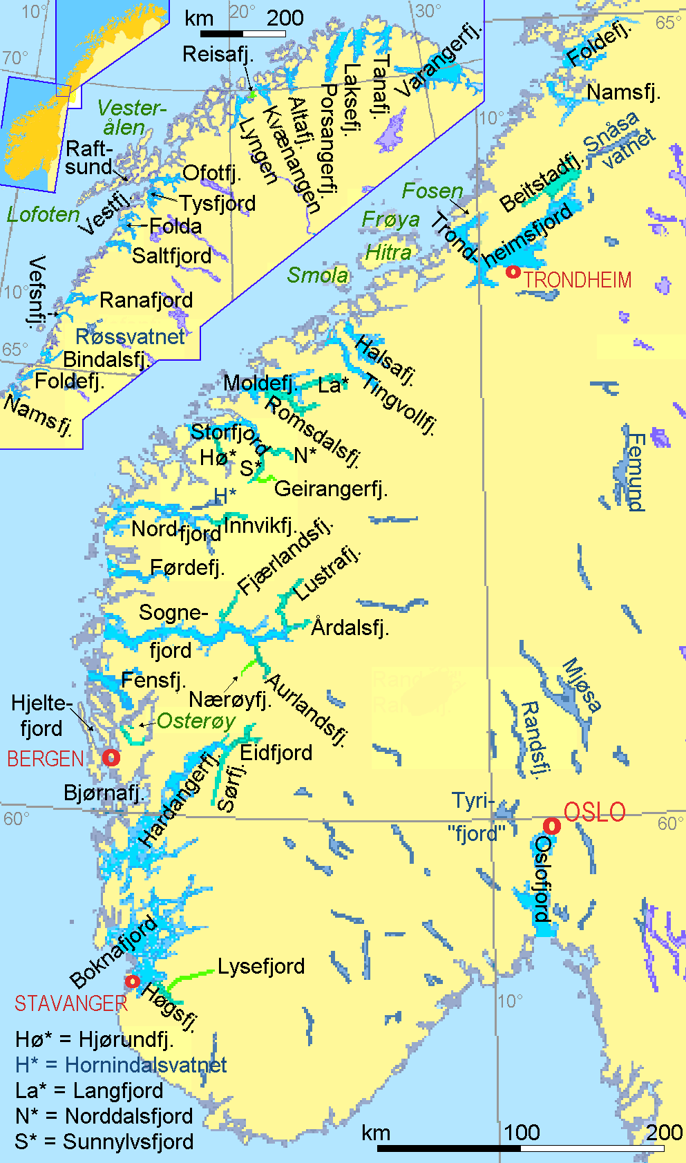 Important fjords and lakes of Norway. Atypical fjords, rather surrounded by Islands than a bay, are texted whithout beeing marked with bricht colours. Remark: The suffix "-en", which is the Norwegian article, mostly has not been used in this map. In some names this "-en" can be placed or not be placed inside the name (Namsenfjord = Namsfjord, Saltenfjord = Saltfjord). In this map the version without inner "-en" has been choosen, as it is written in Cappellen's® maps.Where the graphic coastline appears blurred, there are skærs, in reality.